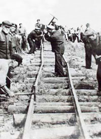 Algemba - first massive nonsense communistic building work